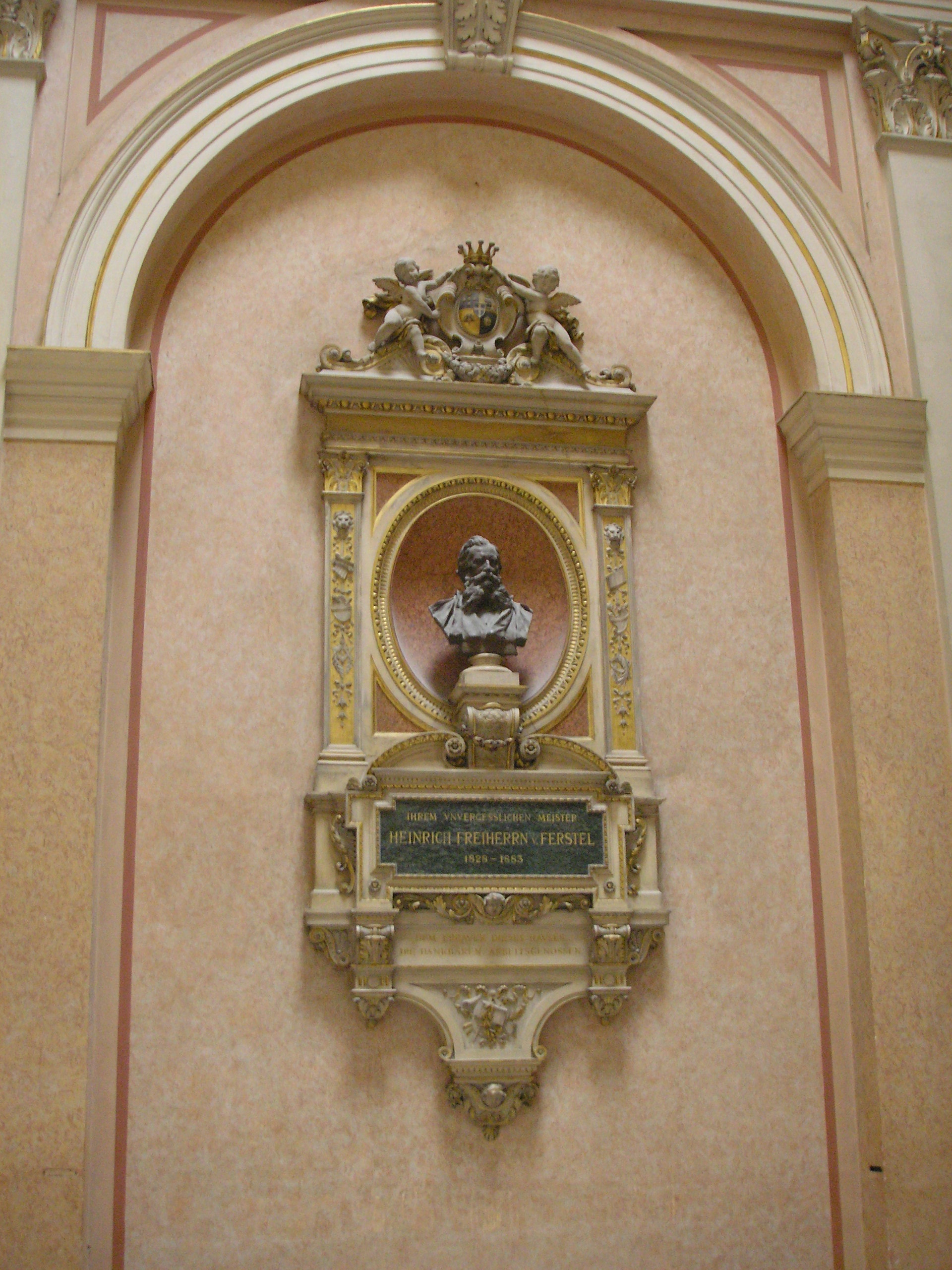 Monument to the architect of the University of Vienna Heinrich Freiherr von Ferstel, in the university.